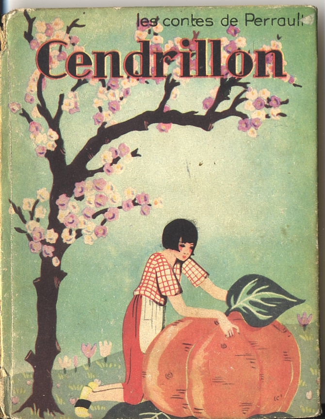 Cendrillon story